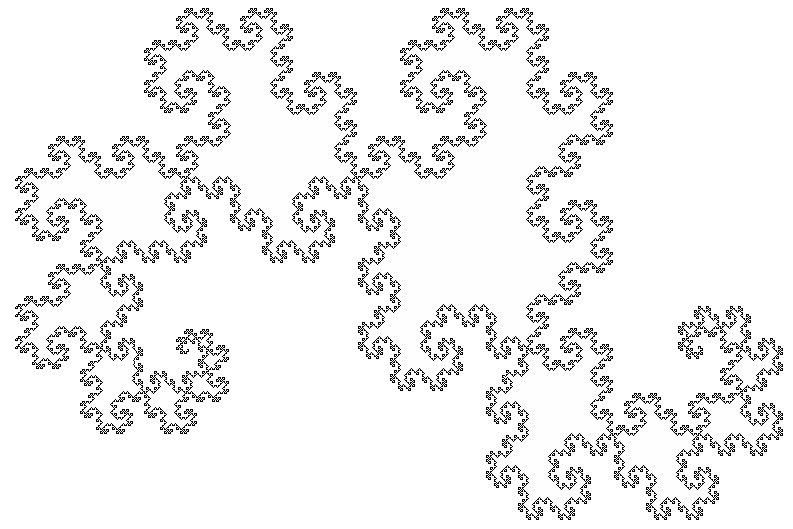 Boundary of the dragon curve fractal (16th iteration).